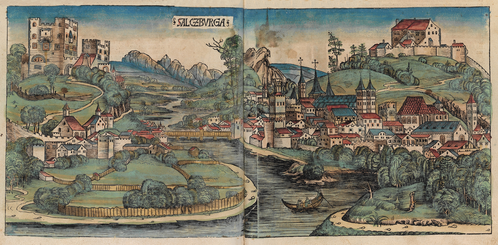 Woodcut of Salzburg from the Nuremberg Chronicle